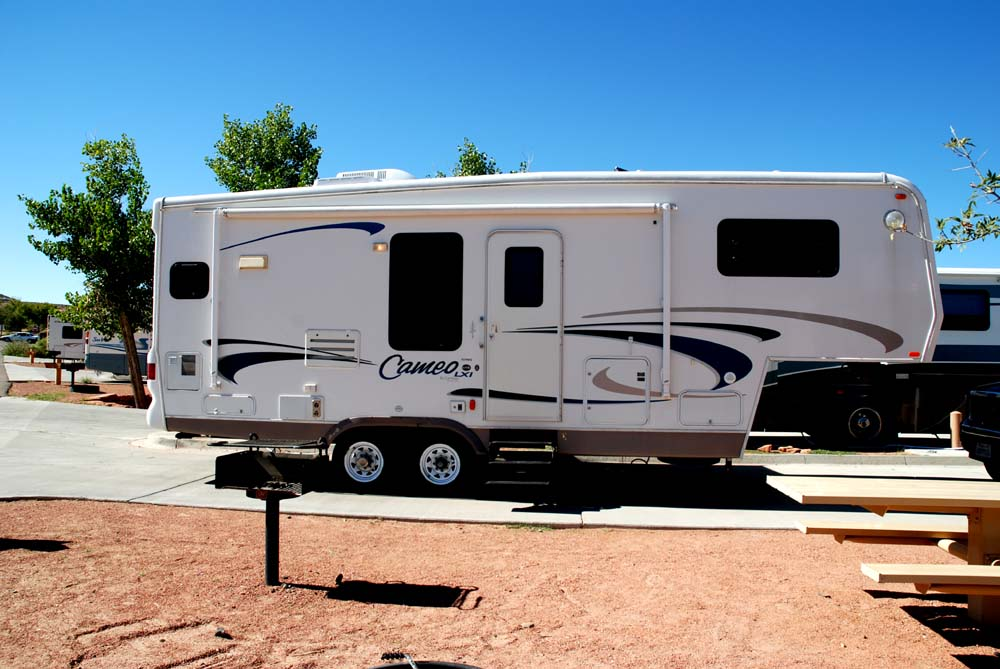 A modern fifth-wheel trailer with a single slide-out